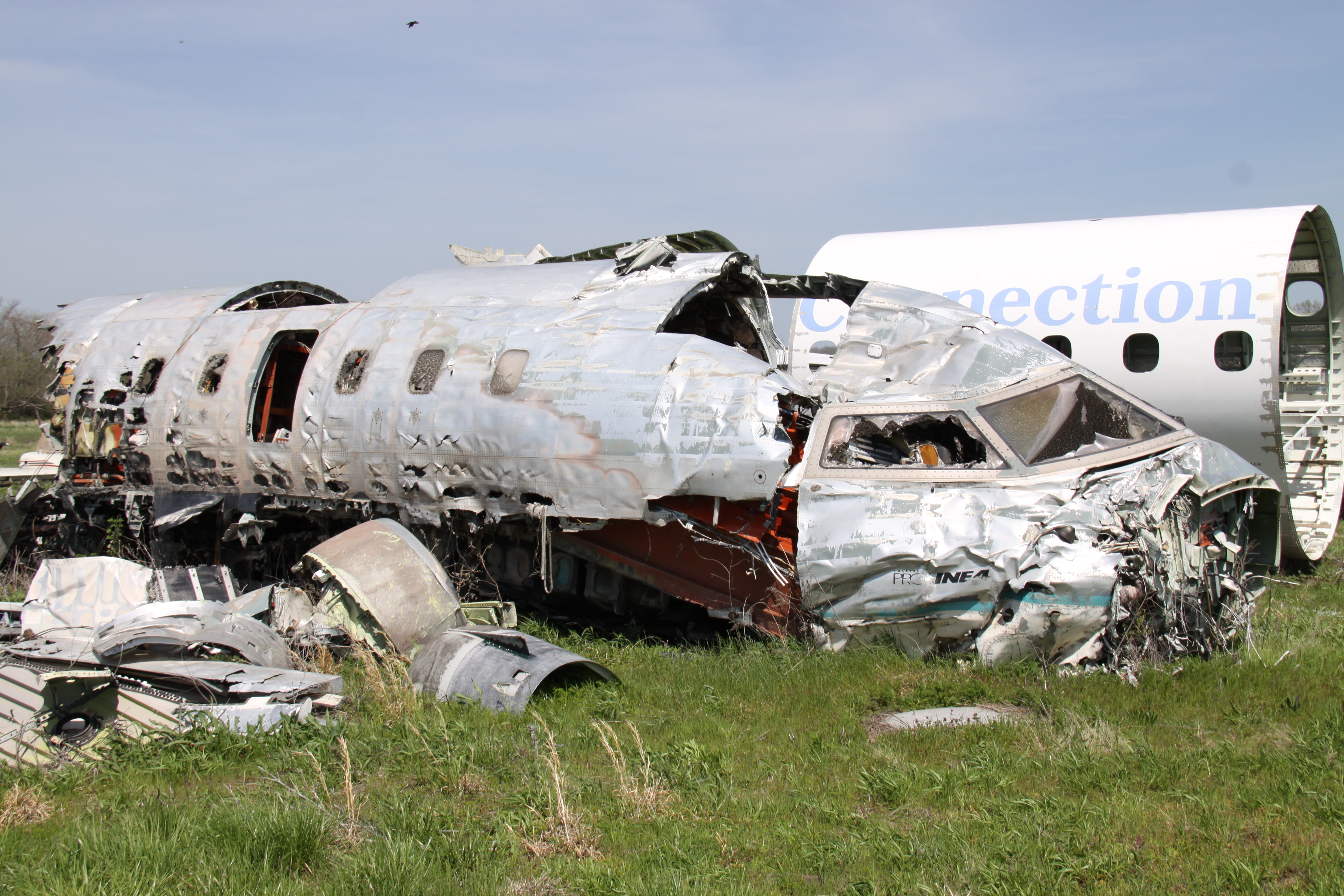 At Rantoul, KS